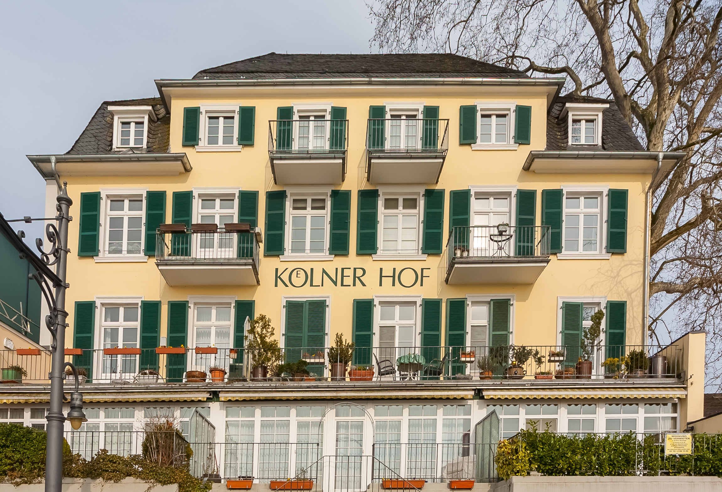 Former Hotel “Kölner Hof”, Rheinallee 5, Königswinter